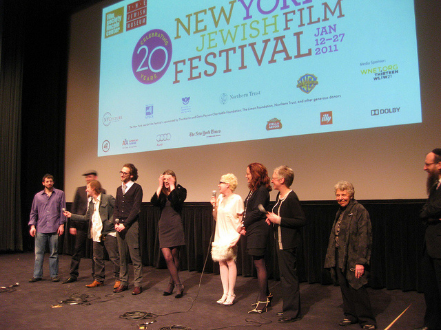 Cast and crew of "Romeo and Juliet " during the Q&A session